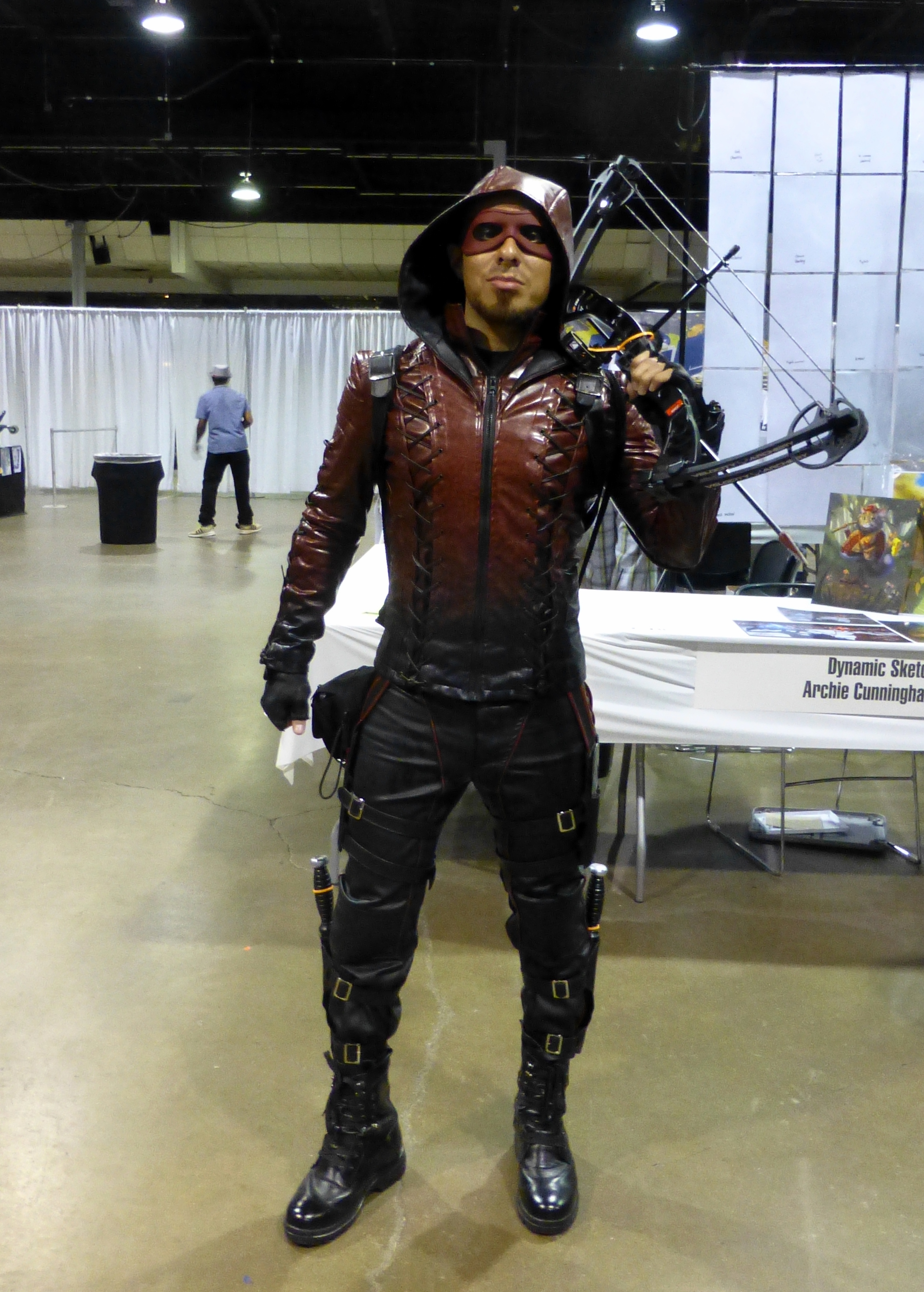 Arsenal Cosplay at the 2015 Wizard World Chicago.